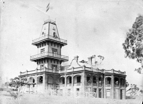 Osborne Hotel, Claremont, Western Australia. ca.1895. Occupied by Loreto Convent, Claremont from 1897.